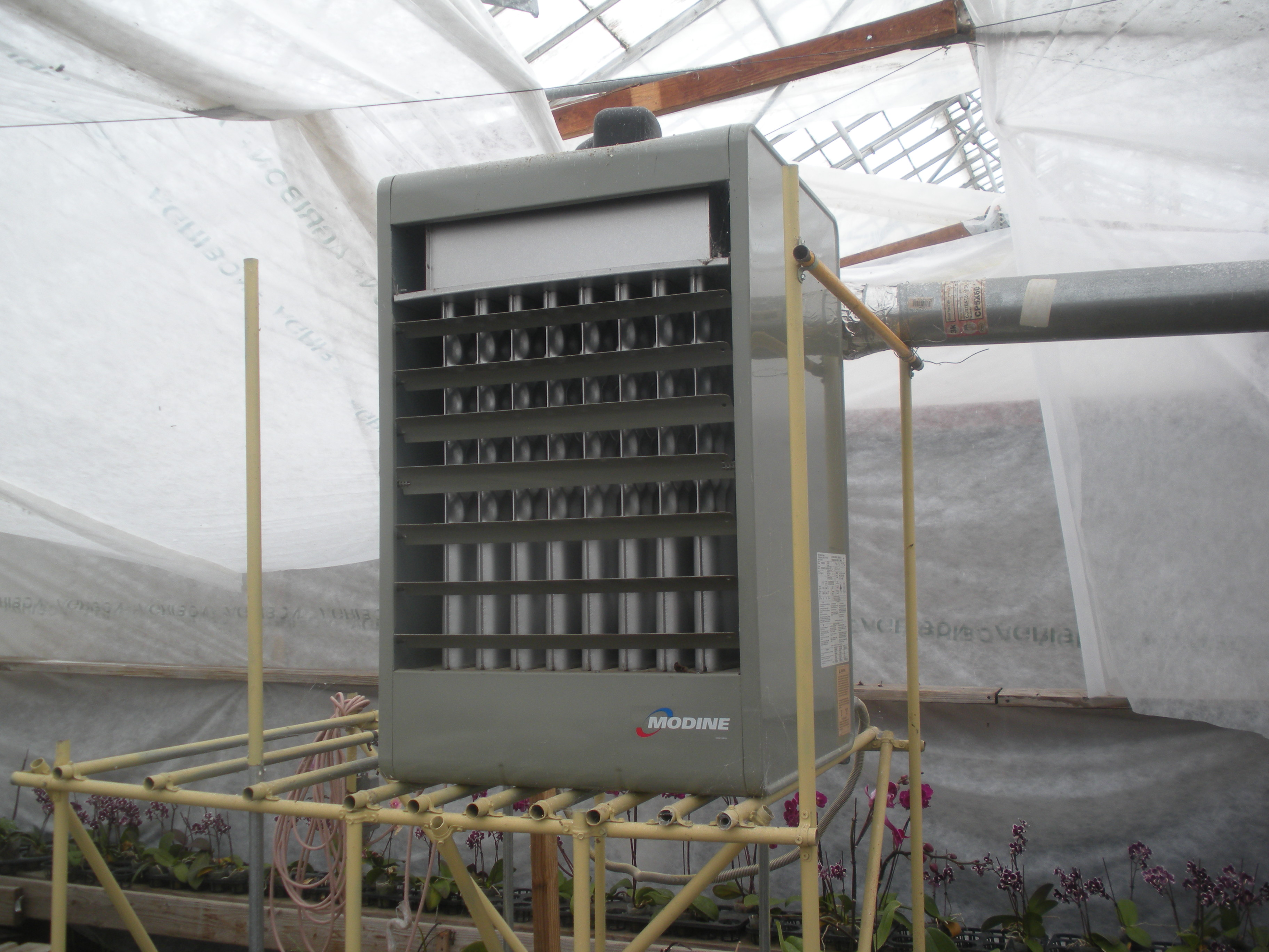 This is a Modine radiator at a nursery near Half Moon Bay, California. Originally posted to my Flickr